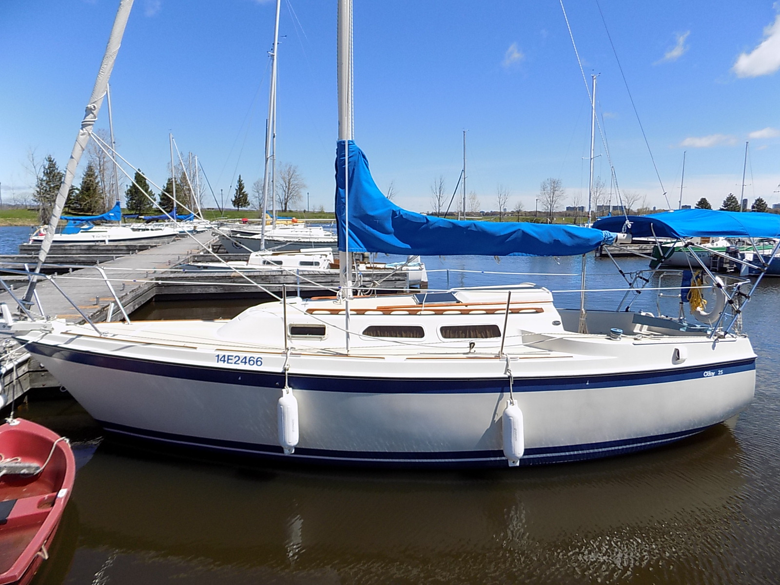 An O'Day 25 sailboat